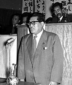 Inejirō Asanuma (1898–1960)